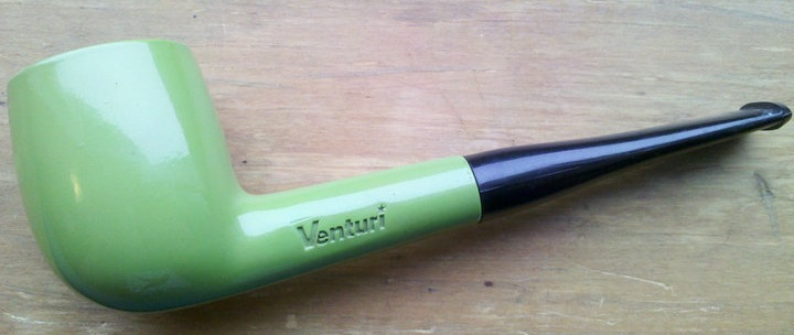 A green "Billiard" model Venturi pipe, one of several pipes manufactured using synthetic materials and distributed by Tar Gard (later Venturi) Corporation of San Francisco for approximately ten years, beginning in 1965. Similar pipes were manufactured by the same company in a variety of colors and styles as "the pipe" and as "THE SMOKE" and "Venturi."